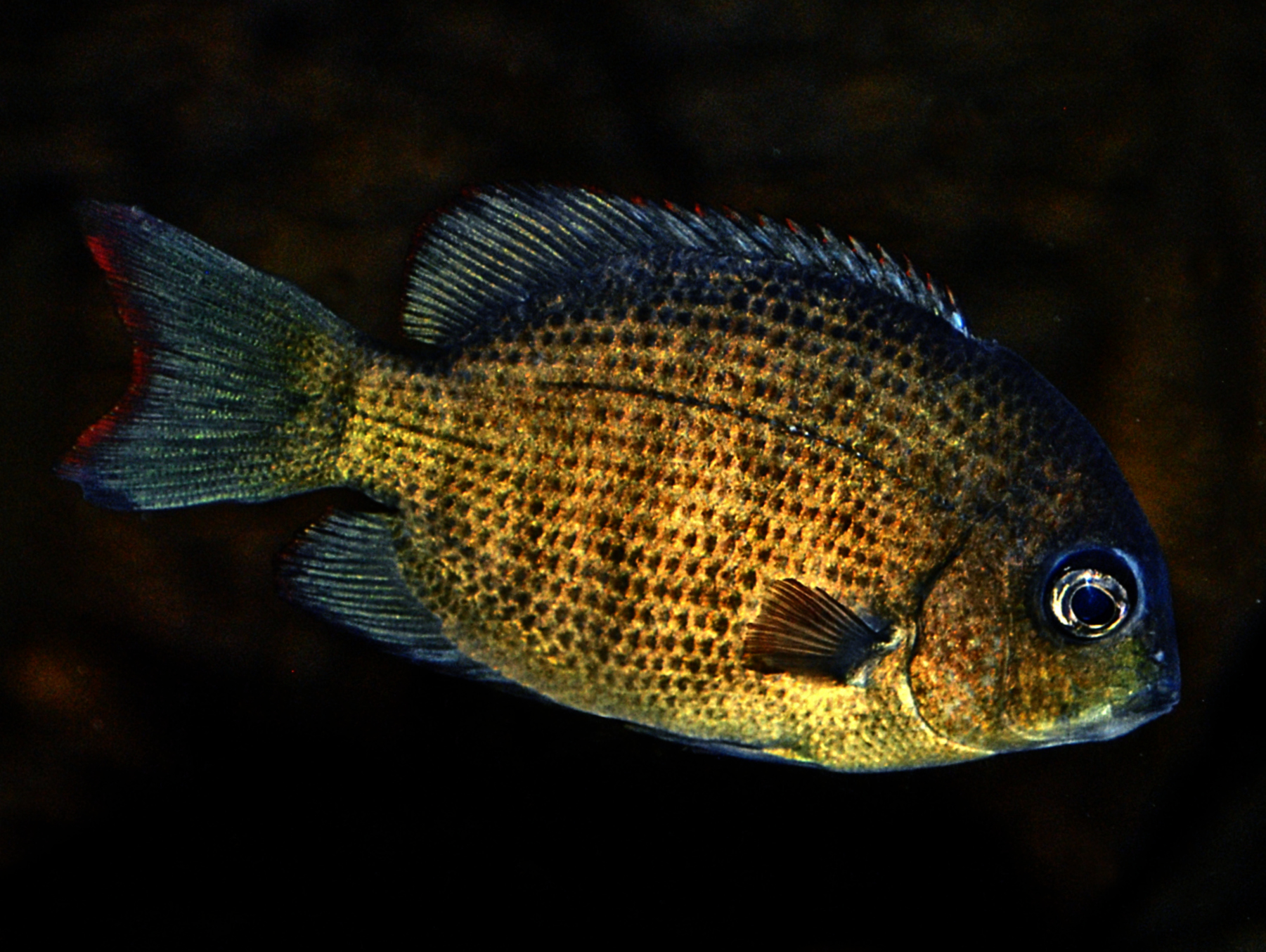 Paretroplus menarambo, on display at the Museo di Storia Naturale e del Territorio, Calci (Province Pisa), Italy